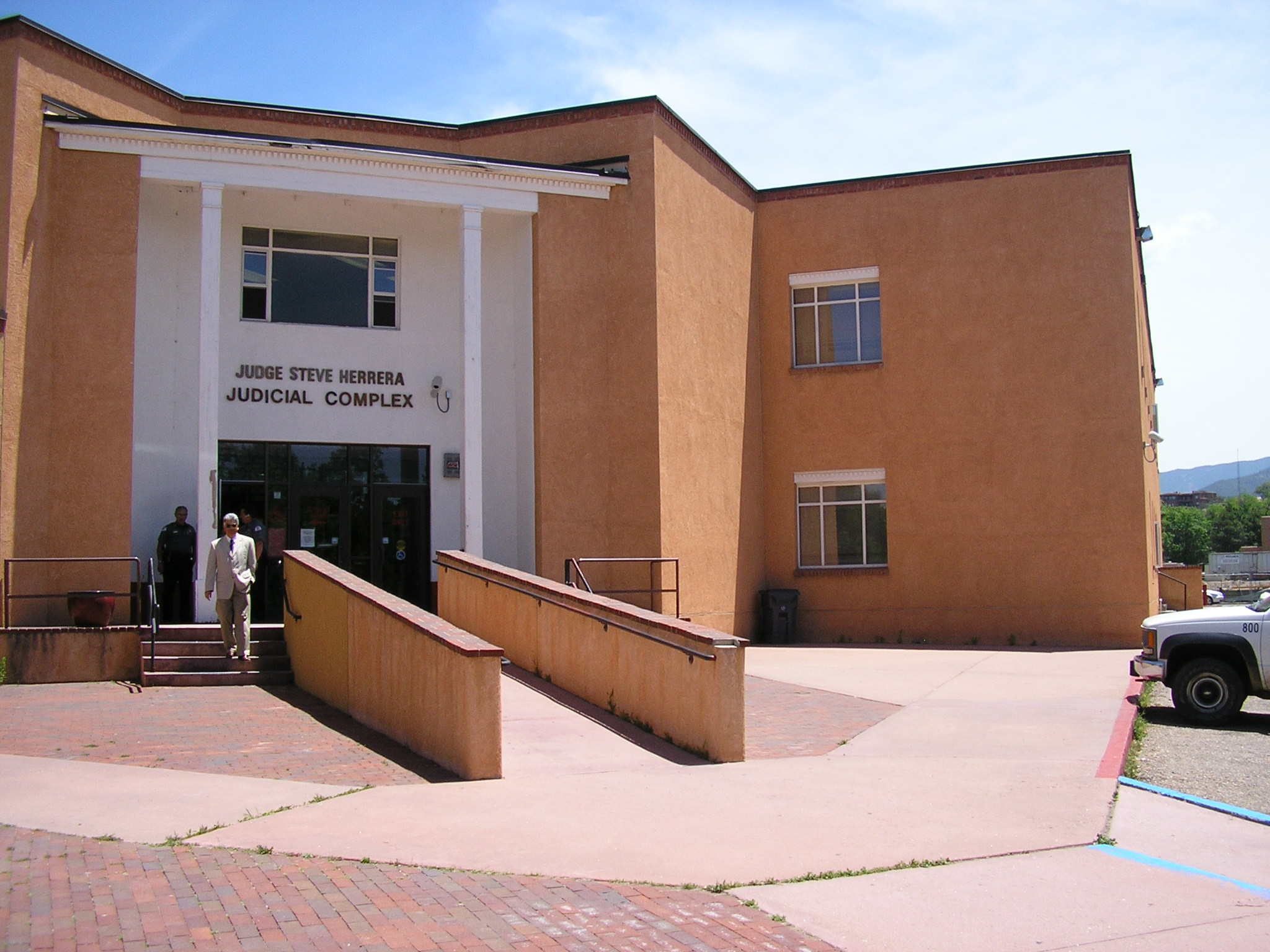 Courthouse in Santa Fe, New Mexico, where a ghostly image was recorded on a surveillance camera in June 2007.